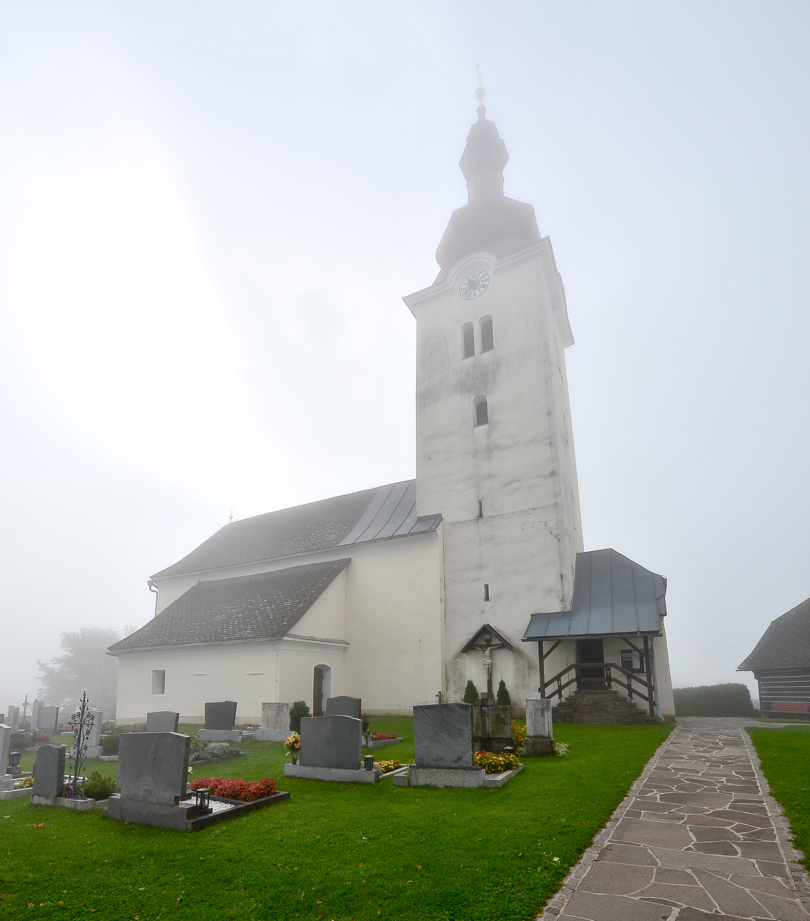 North west view at the parish church Saint John the Baptist at Forst #38, municipality Wolfsberg, district Wolfsberg, Carinthia / Austria / EU